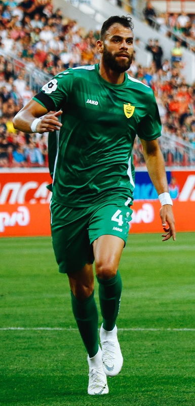 Jhon Chancellor with FC Anzhi Makhachkala in a game against FC Lokomotiv Moscow.